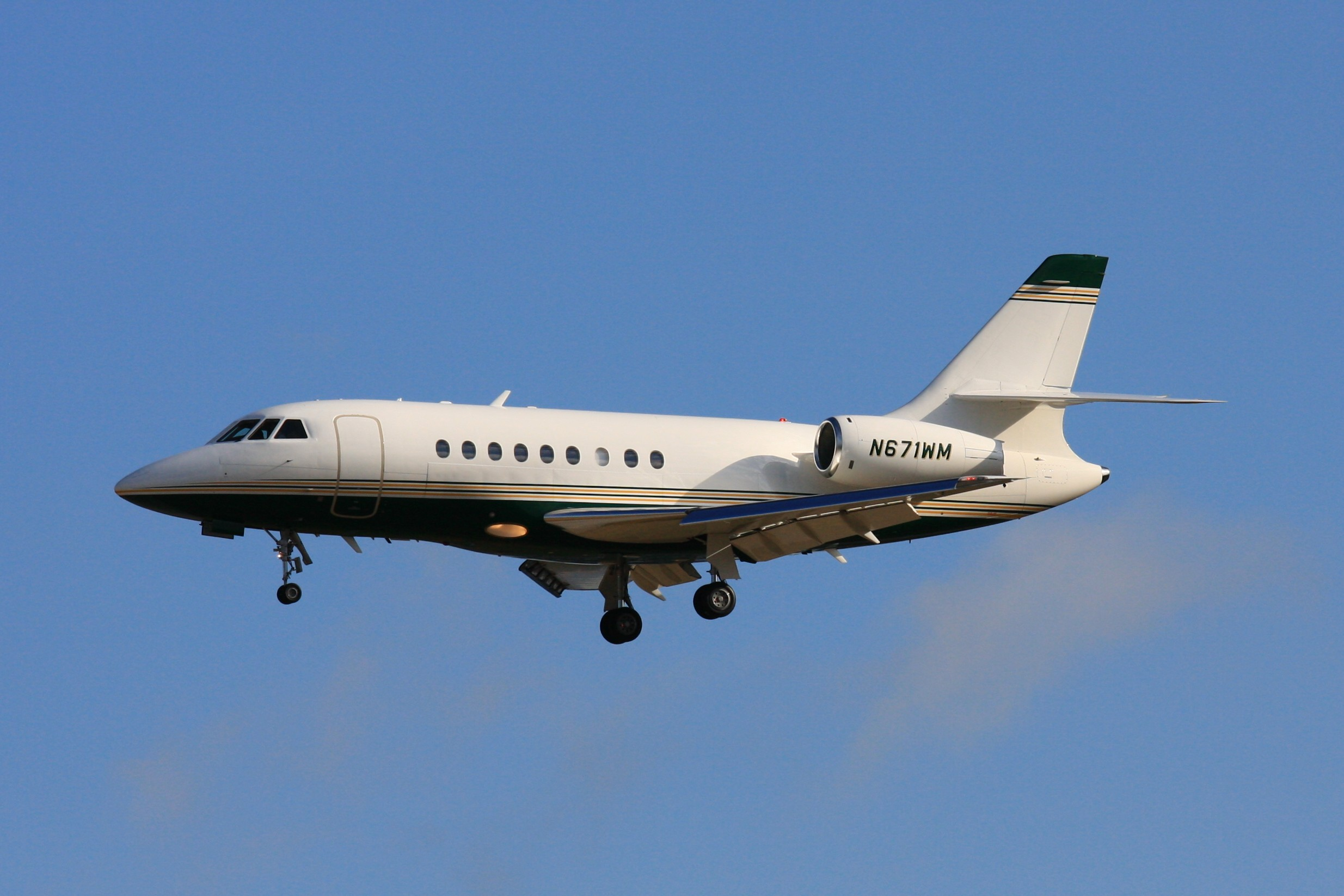 A Dassault Falcon 2000 aircraft landing at Frankfurt Airport. Other photographs in this sequence : File:2010-07-15 Falcon2000 private N671WM EDDF 02.jpg File:2010-07-15 Falcon2000 private N671WM EDDF 03.jpg